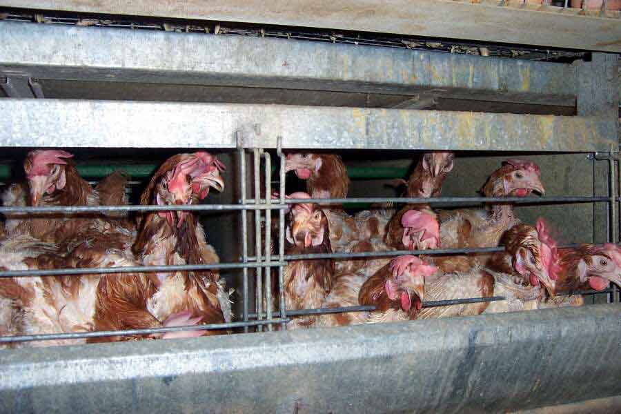 hens in a battery farm